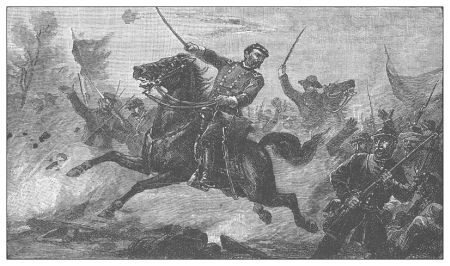 Philip Sheridan at Cedar Creek, Oct 19, 1864